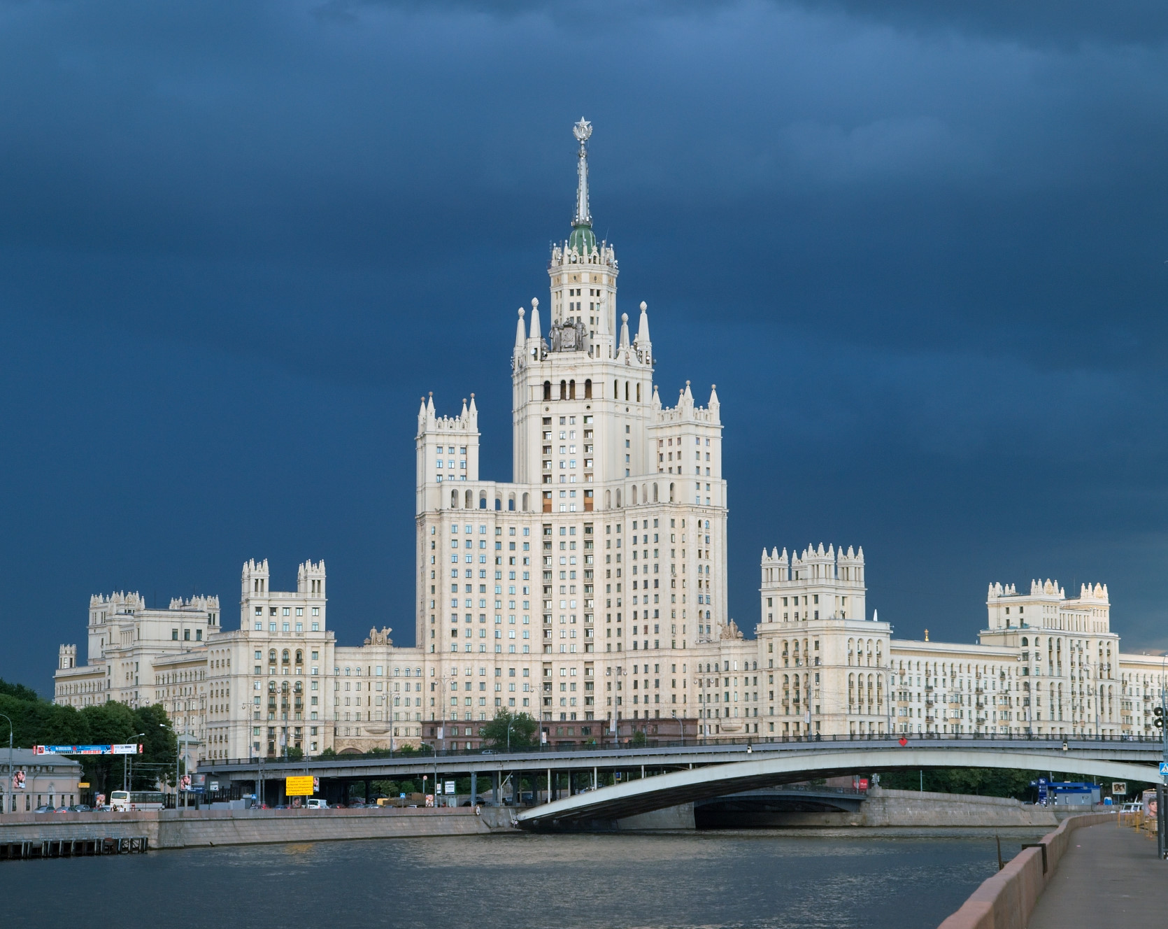 Kotelnicheskaya Embankment Building, Moscow. Waiting for a shower rain.